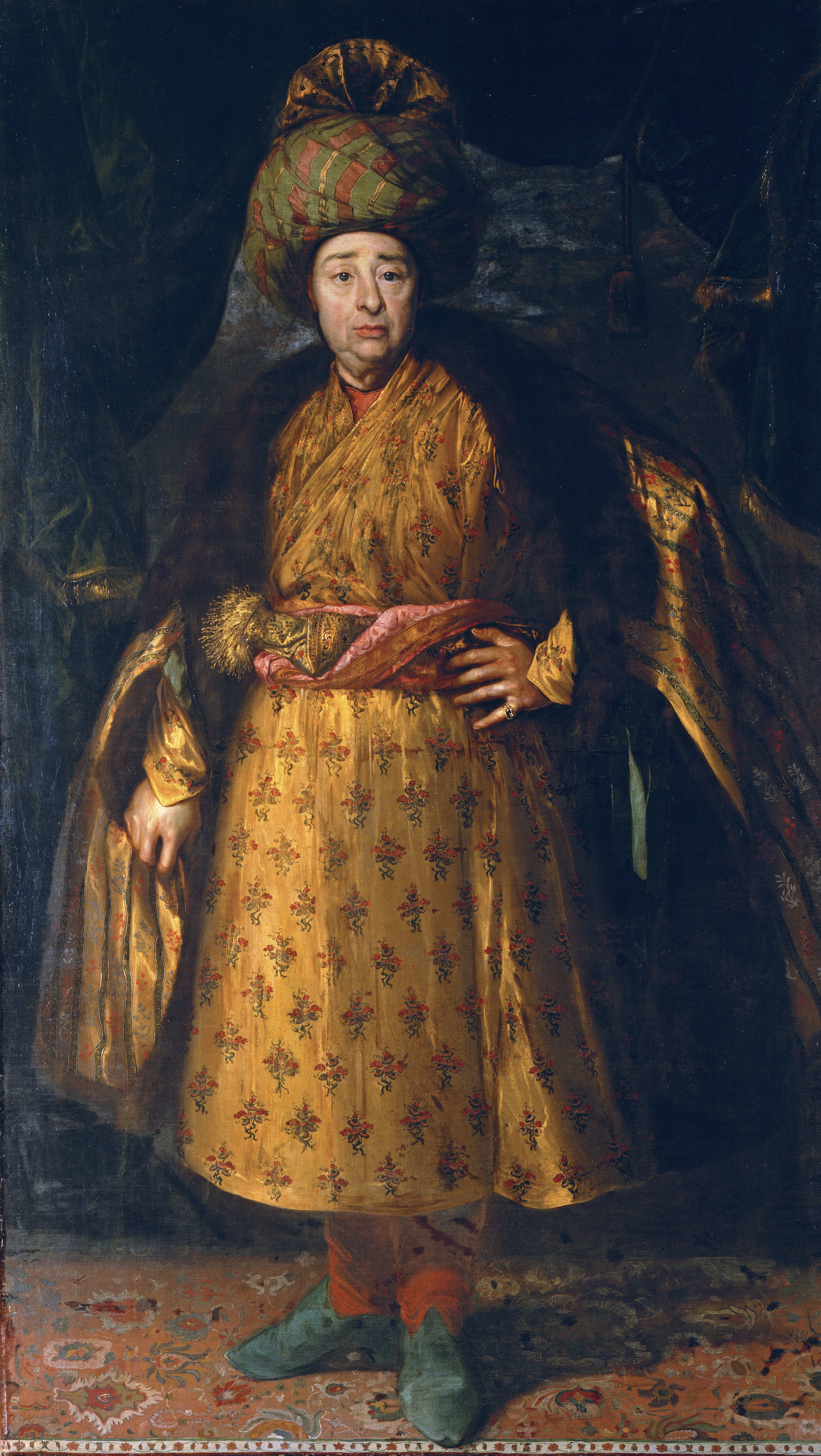 The goldsmith Jean-Baptiste Tavernier (1605-1689)